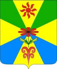 Coat of arms of Poputnaya, Otradnya Raion, Krasnodar Krai, Russia.